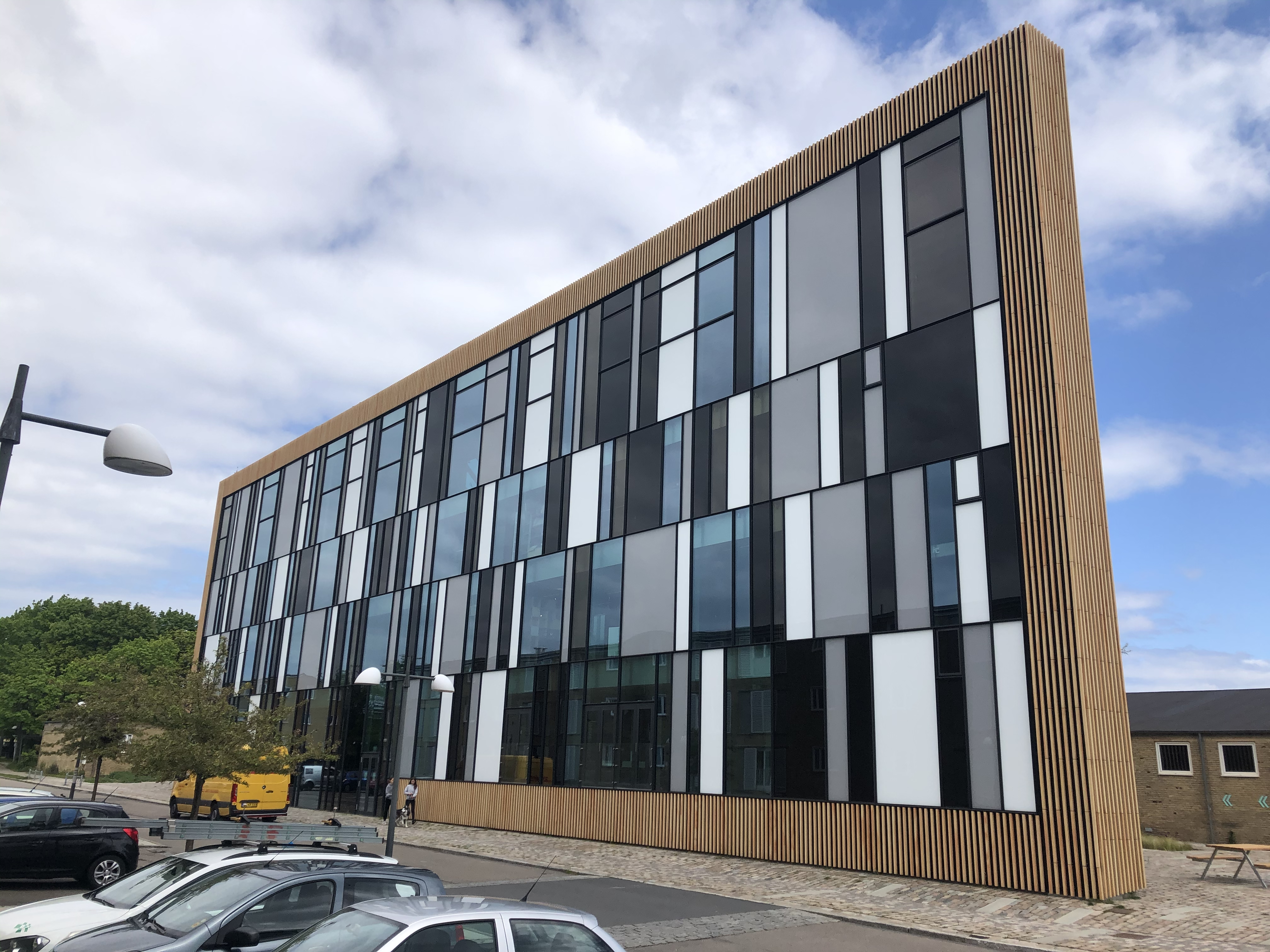 Library in Tingbjerg, Denmark